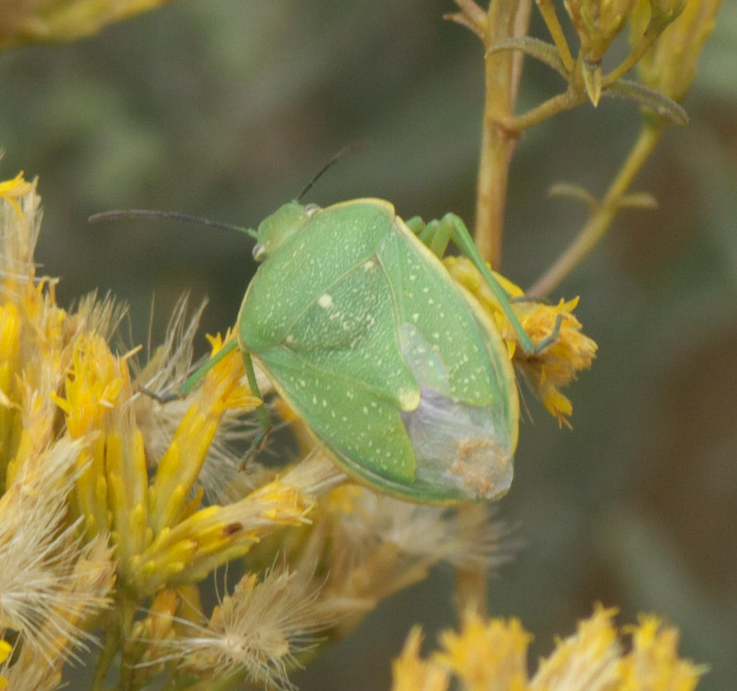 Chlorochroa uhleri, Uhler's Stink Bug, ID Confidence: 90